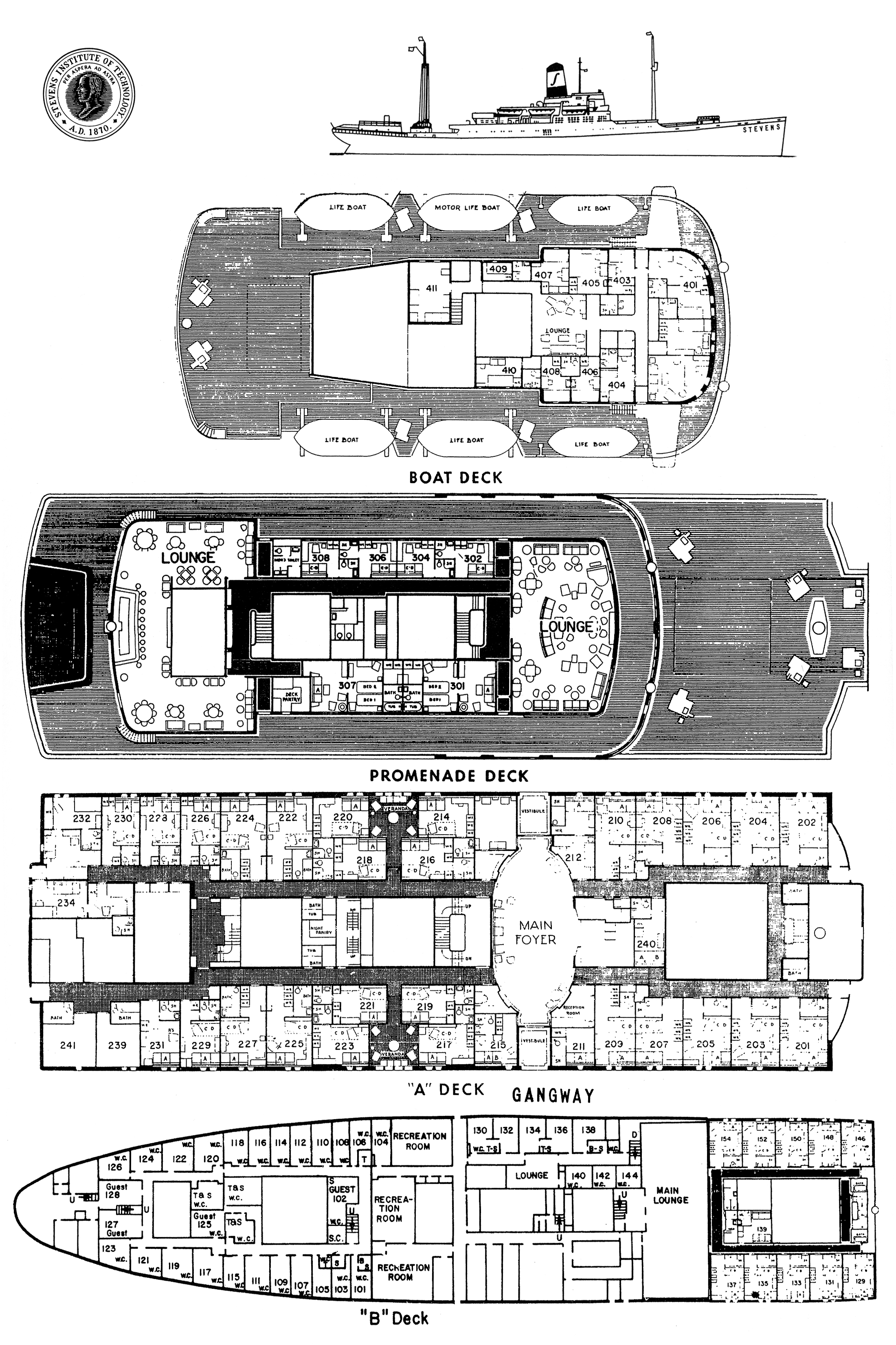 SS Stevens Deck Plan The image was scanned from a hard copy of the original document.